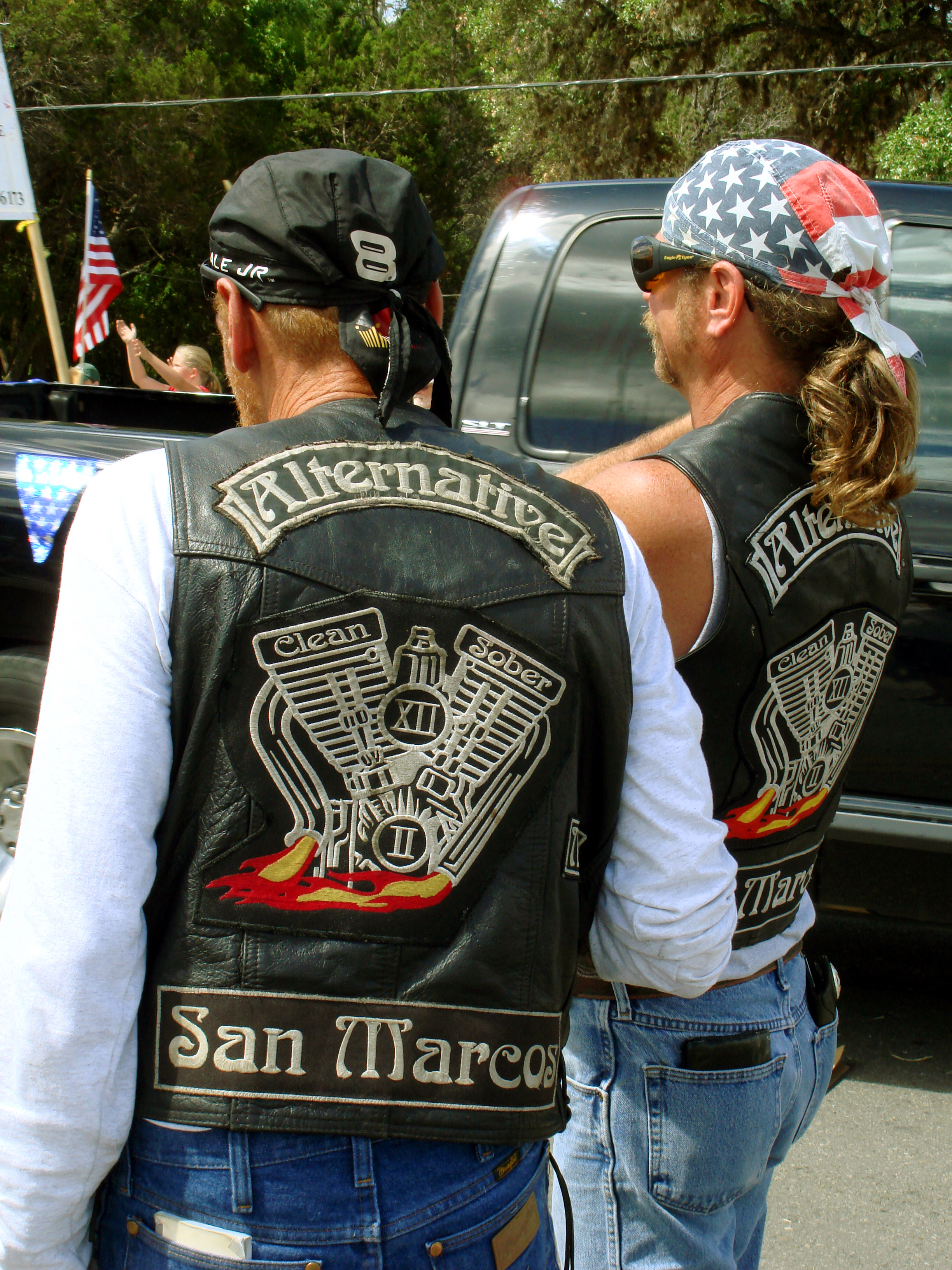 Members of the San Marcos Alternatives motorcycle club at the 2008 Wimberley, Texas parade.